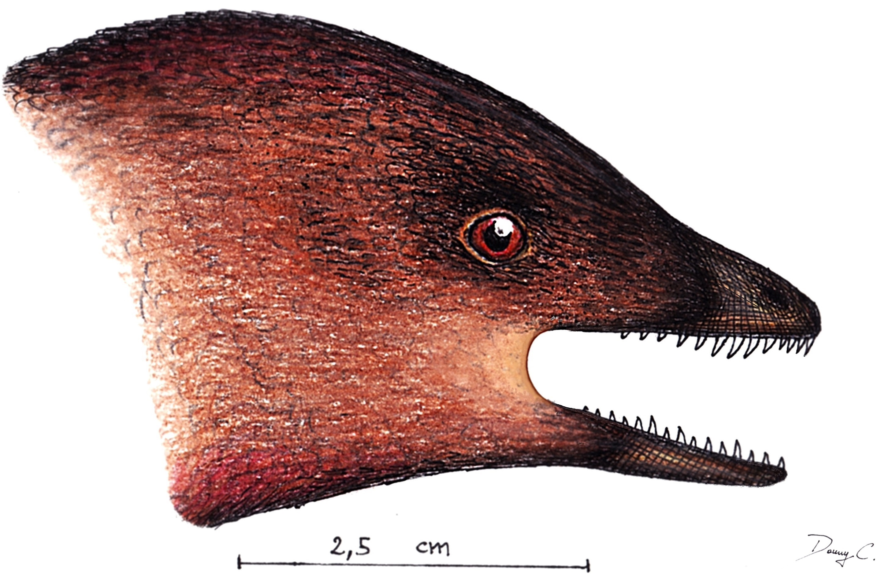 Head restoration